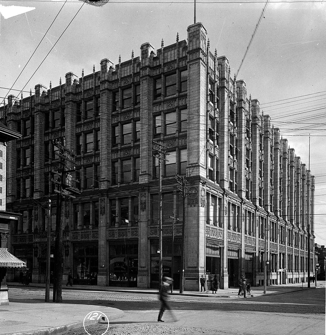 299 Queen Street West, then the Methodist Church offices, southeast corner of Queen and John streets (Toronto, Canada)